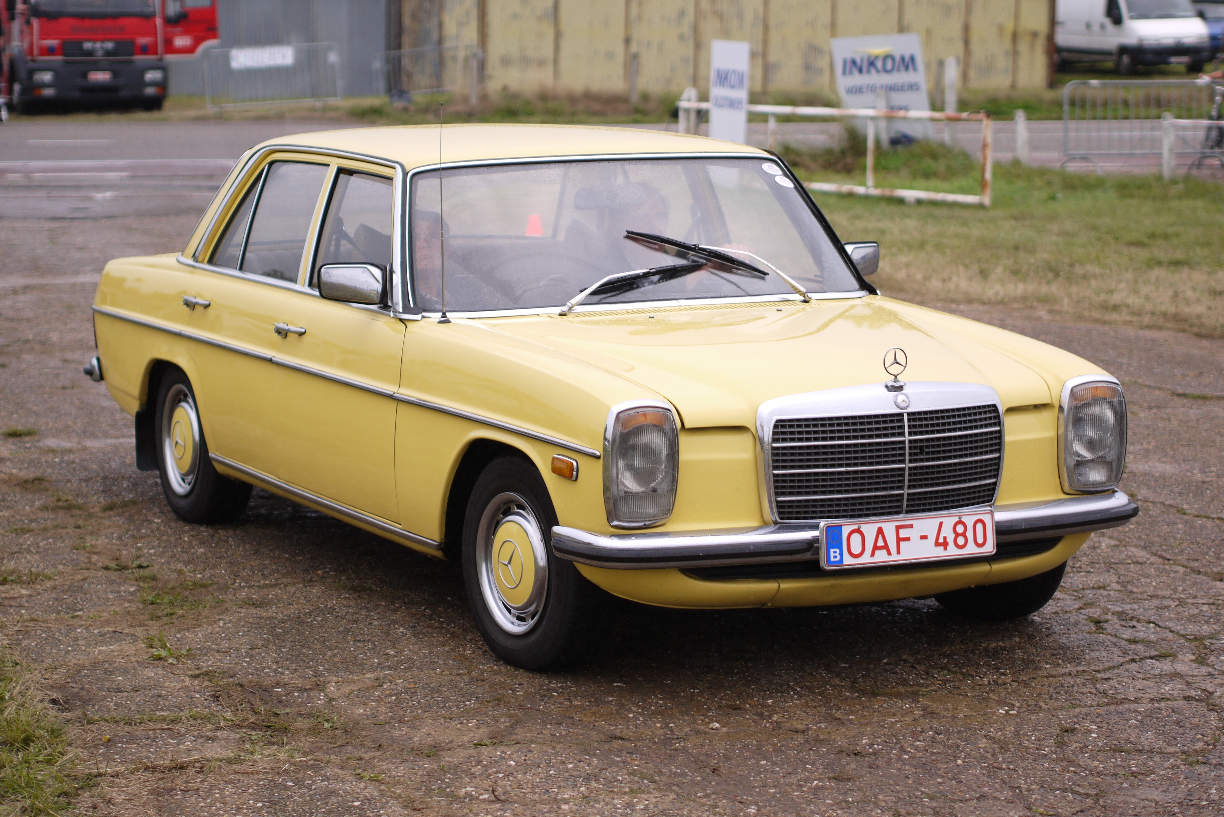 Mercedes-Benz 220D, circa 1974, Schaffen Diest, Fly-Drive 2013